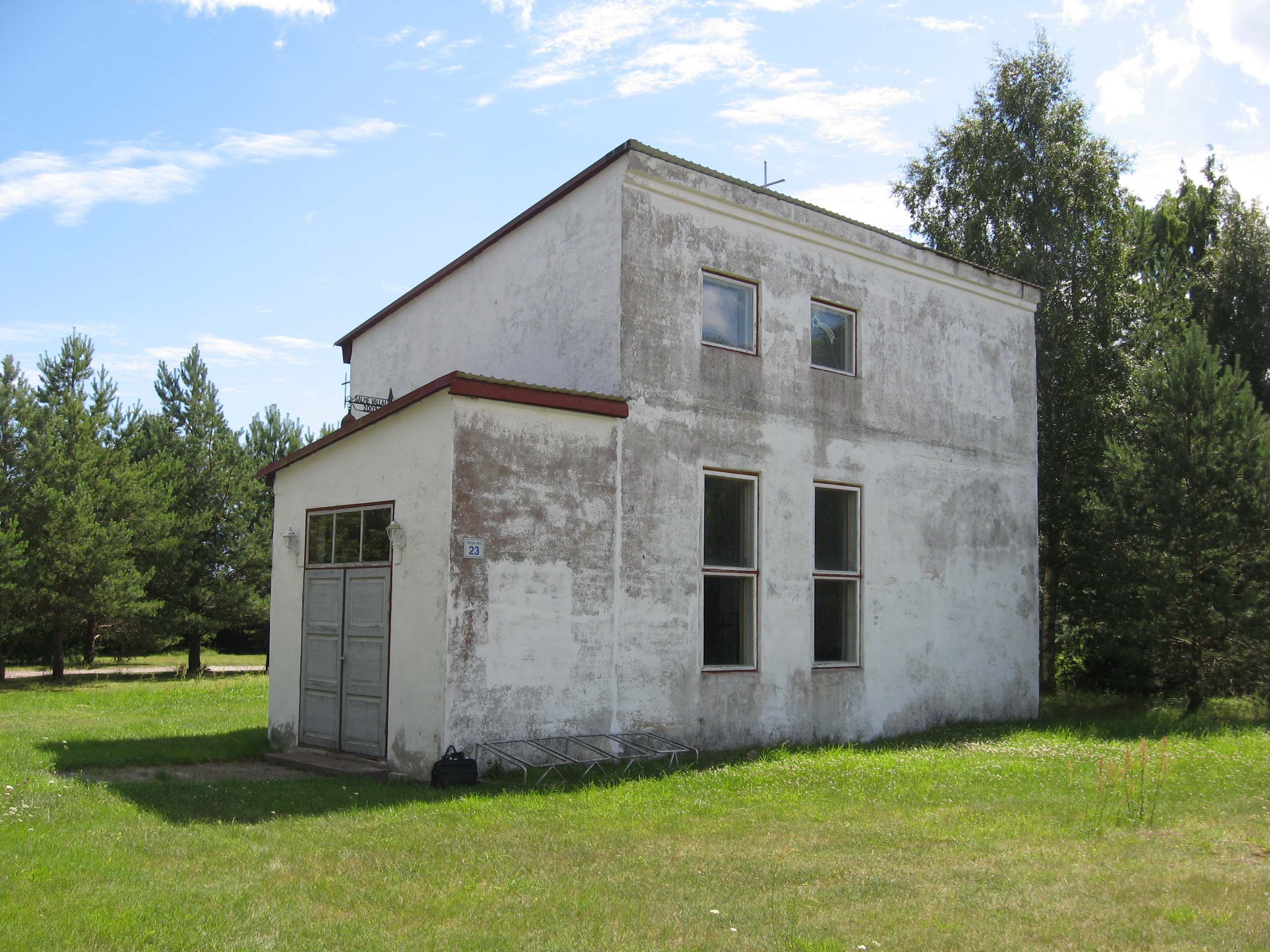 Church in Salme (Saaremaa)